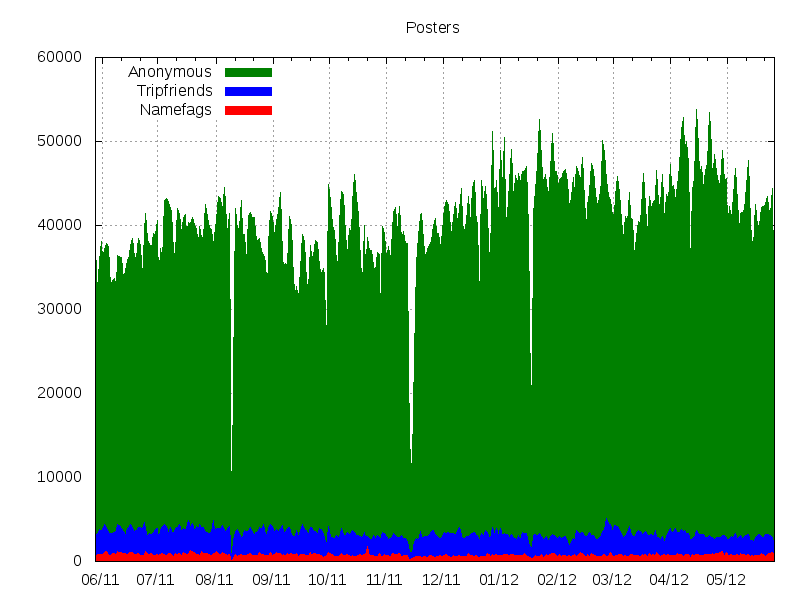 A visual representation graph of the userbase of the /a/ board (Anime and Manga) on 4chan. X axis is time (month/year), Y axis is population.